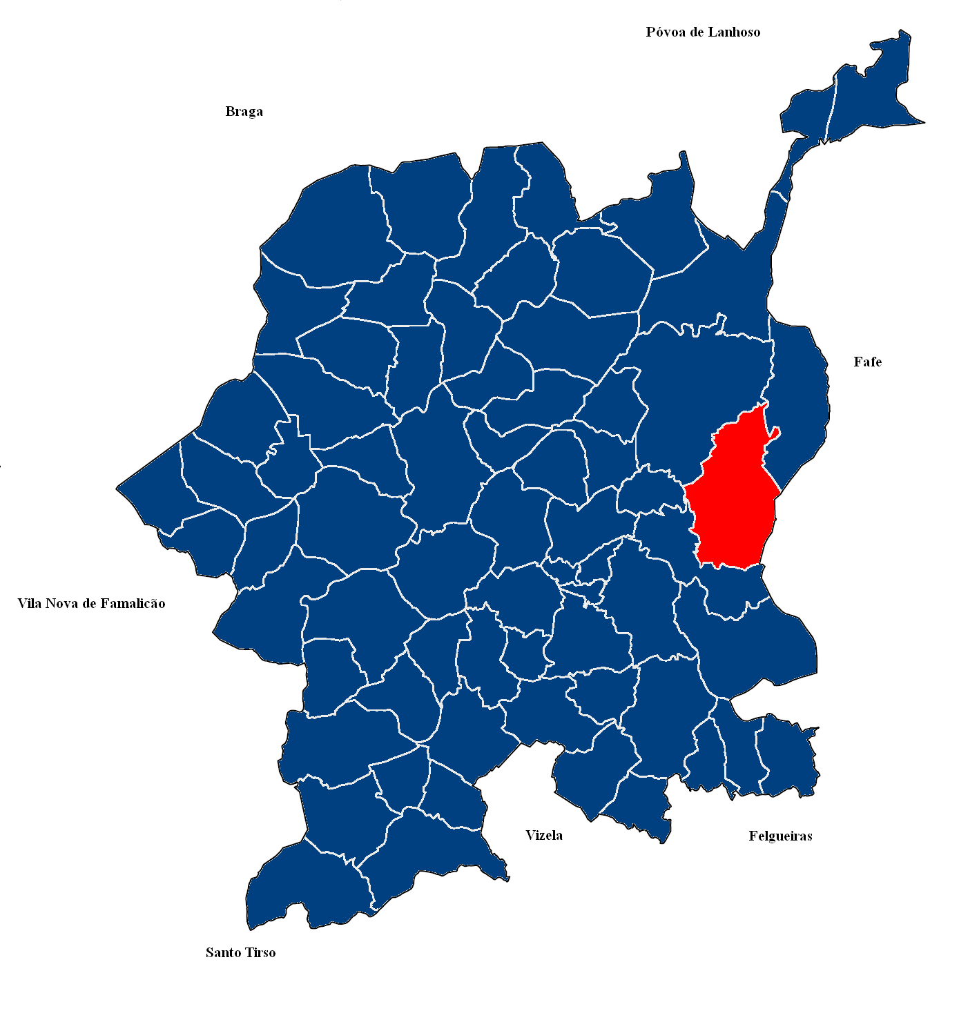 Map of Atães parish, Guimarães Municipality, Portugal